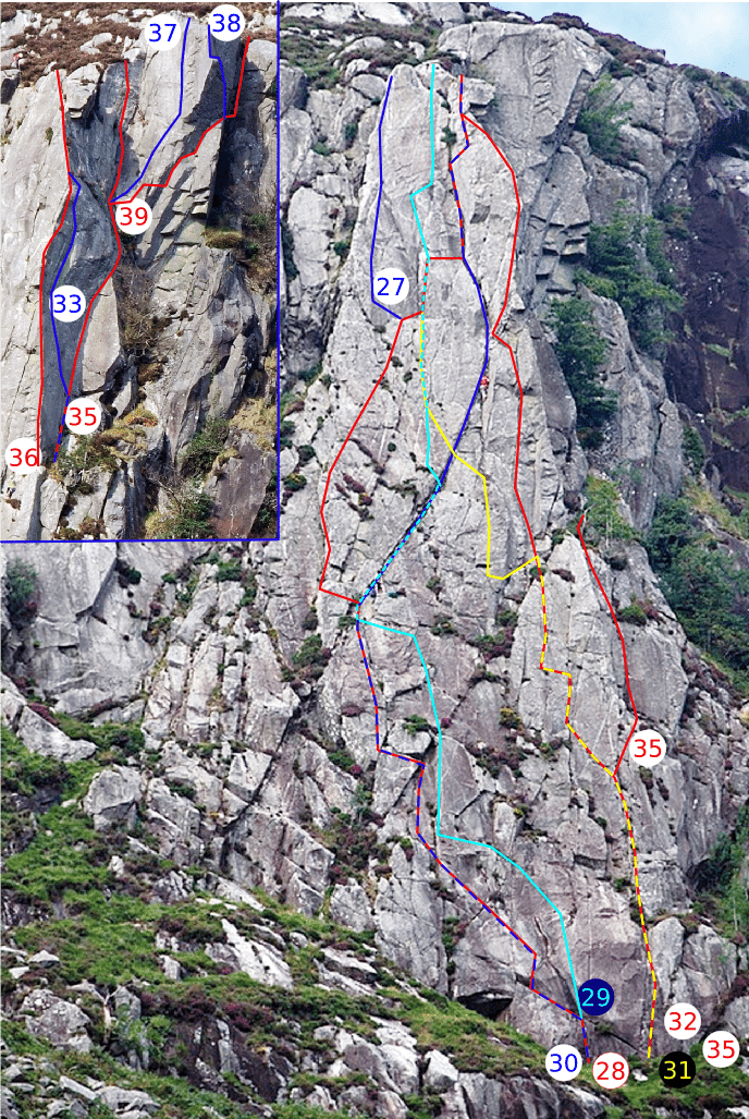 Marked topo of the main routes on Main Face in the Twin Buttress area of Glendalough in Ireland